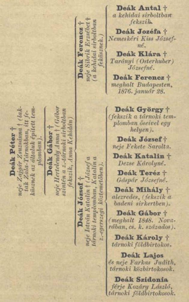 Deák family